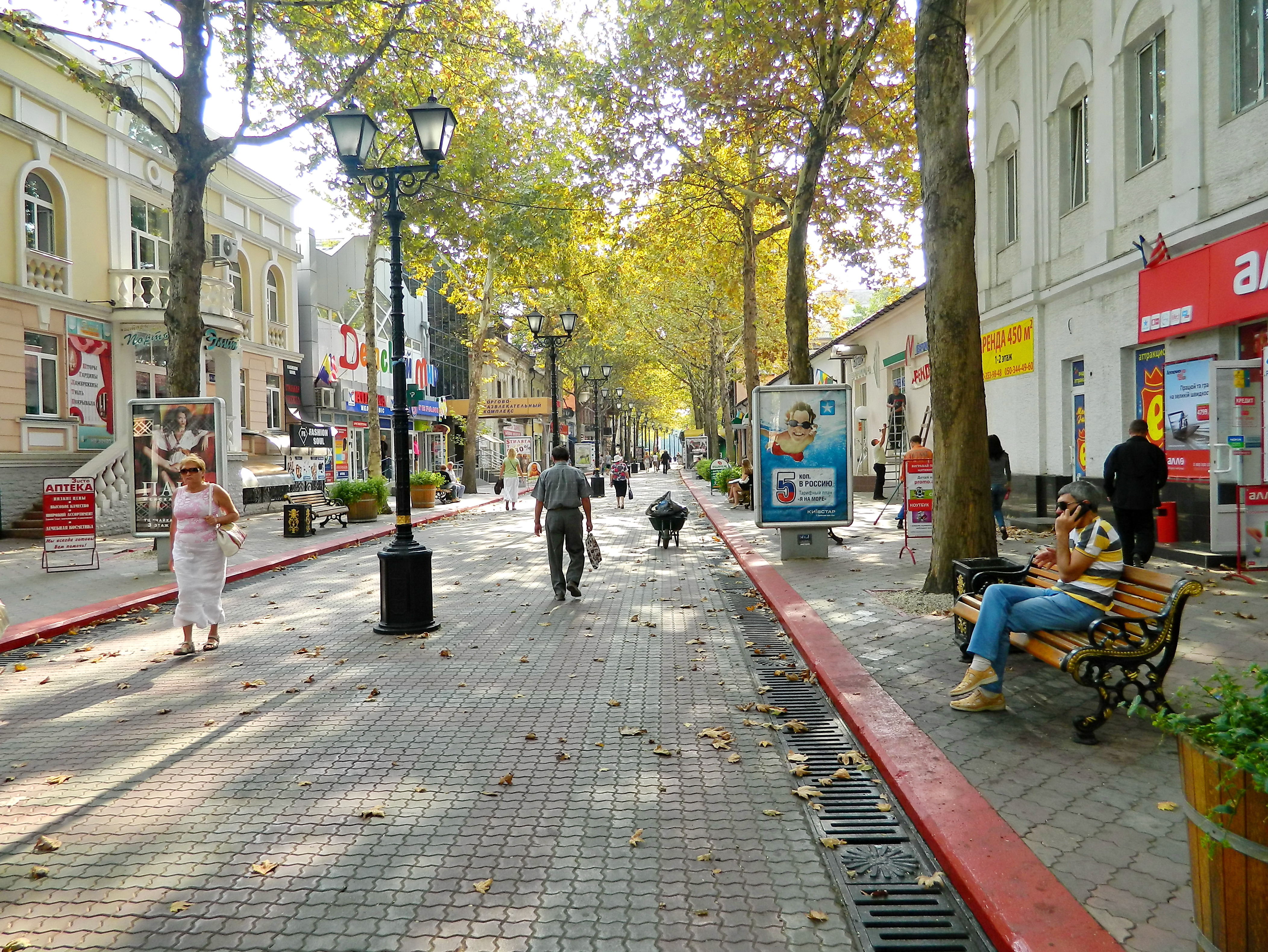 Autumnal Kerch. On the main street of the city.